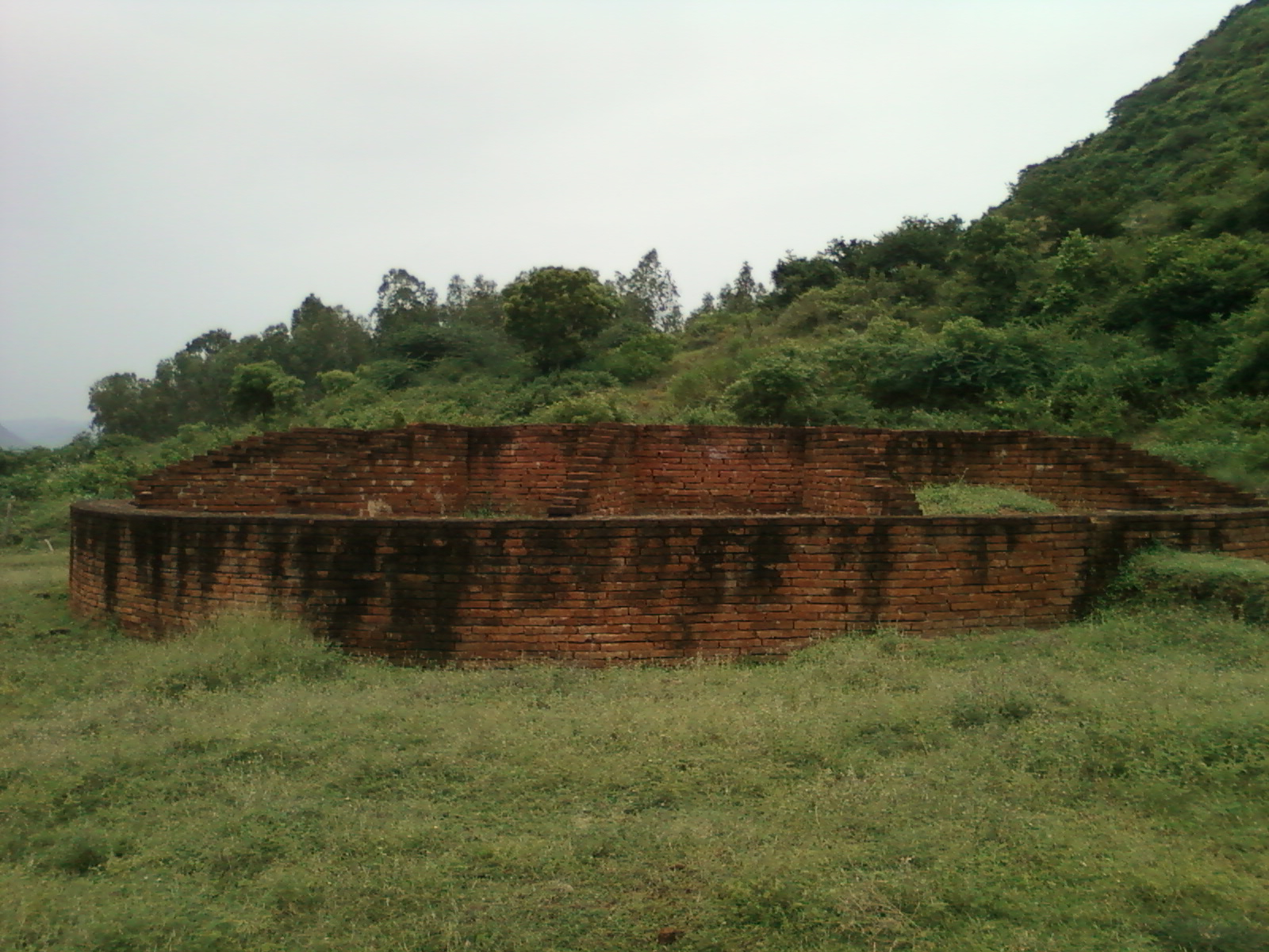 Maha Stupa at Kotturu Dhanadibbalu near Elamanchili of Visakhapatnam District.